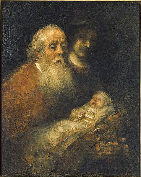 Simeon in the Temple